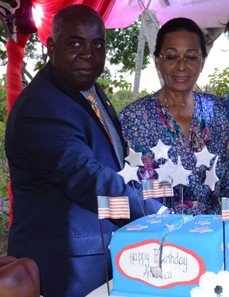 Cropped photograph of Philip "Brave" Davis (left) and Marguerite Pindling (right) commemorating the 239th Anniversary of Independence of the United States of America in Nassau